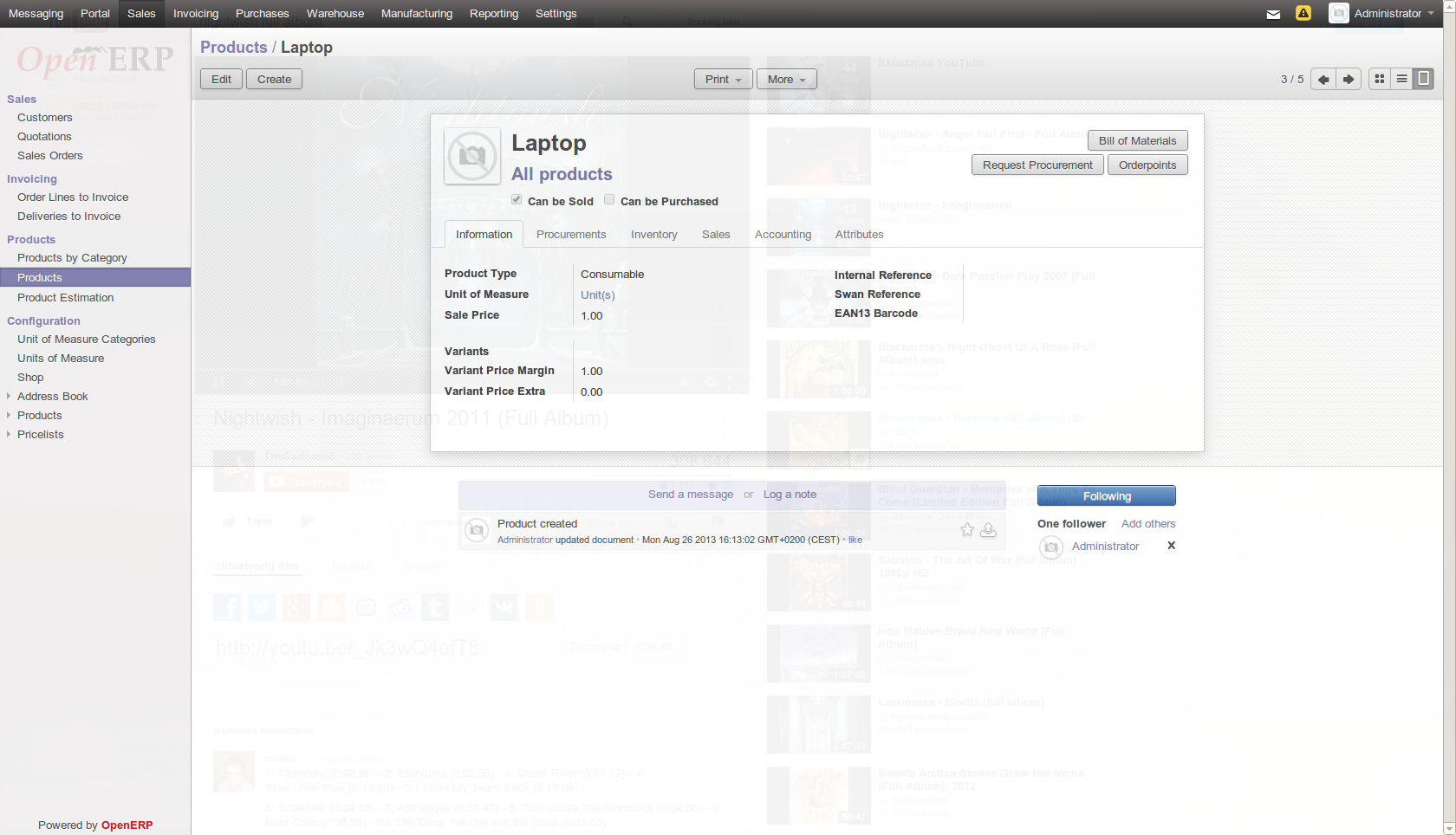 VIew of product in OpenERP version 7.0